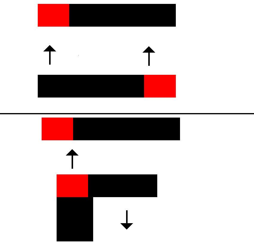 A picture I drew to illustrate Epaminondas's tactics at Leuctra. Originally uploaded to English Wikipedia by User:Robth